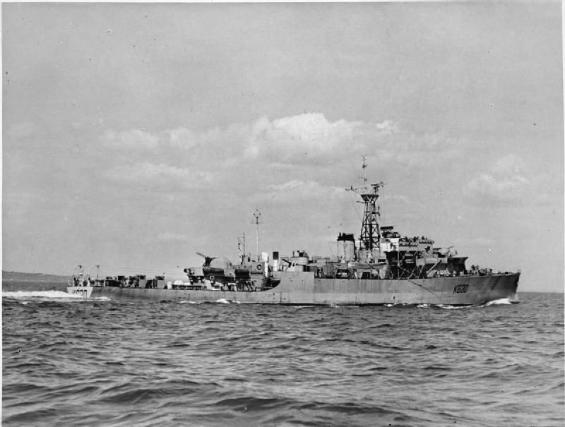 Photograph of British frigate HMS Cardigan Bay.